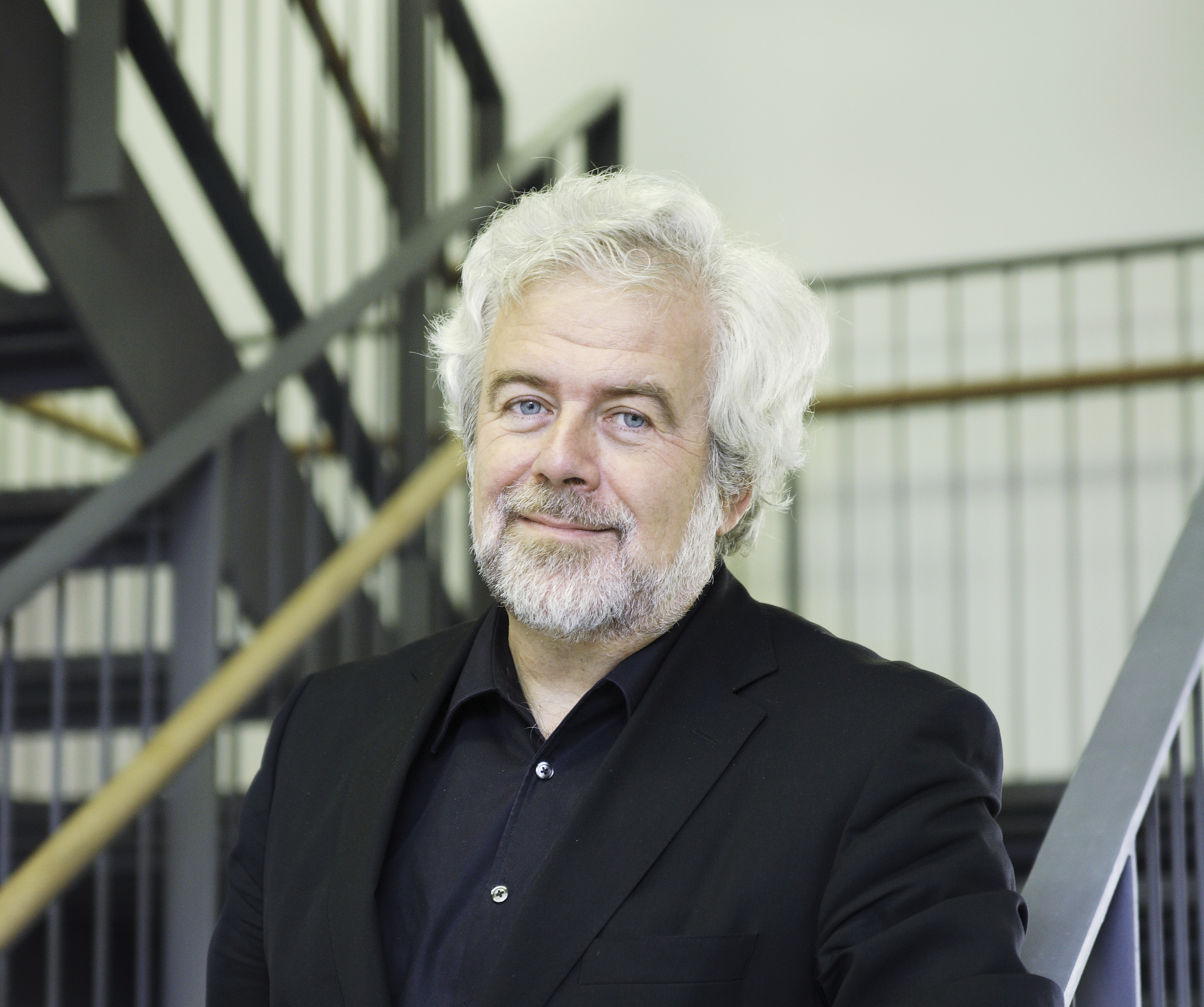 A photo of Prof. Jochen Hörisch